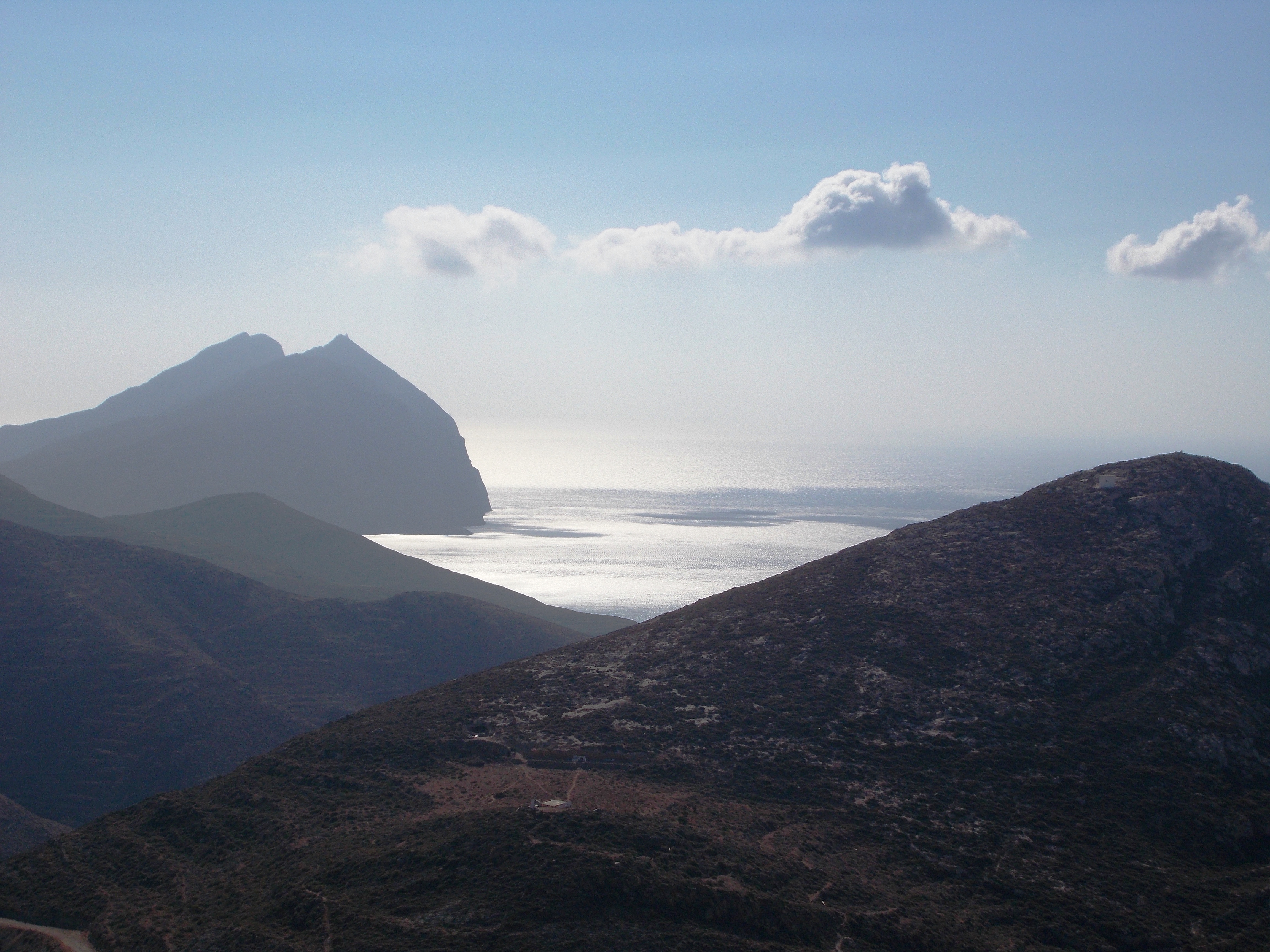 This is a photography of Natura 2000 protected area with ID GR4220002